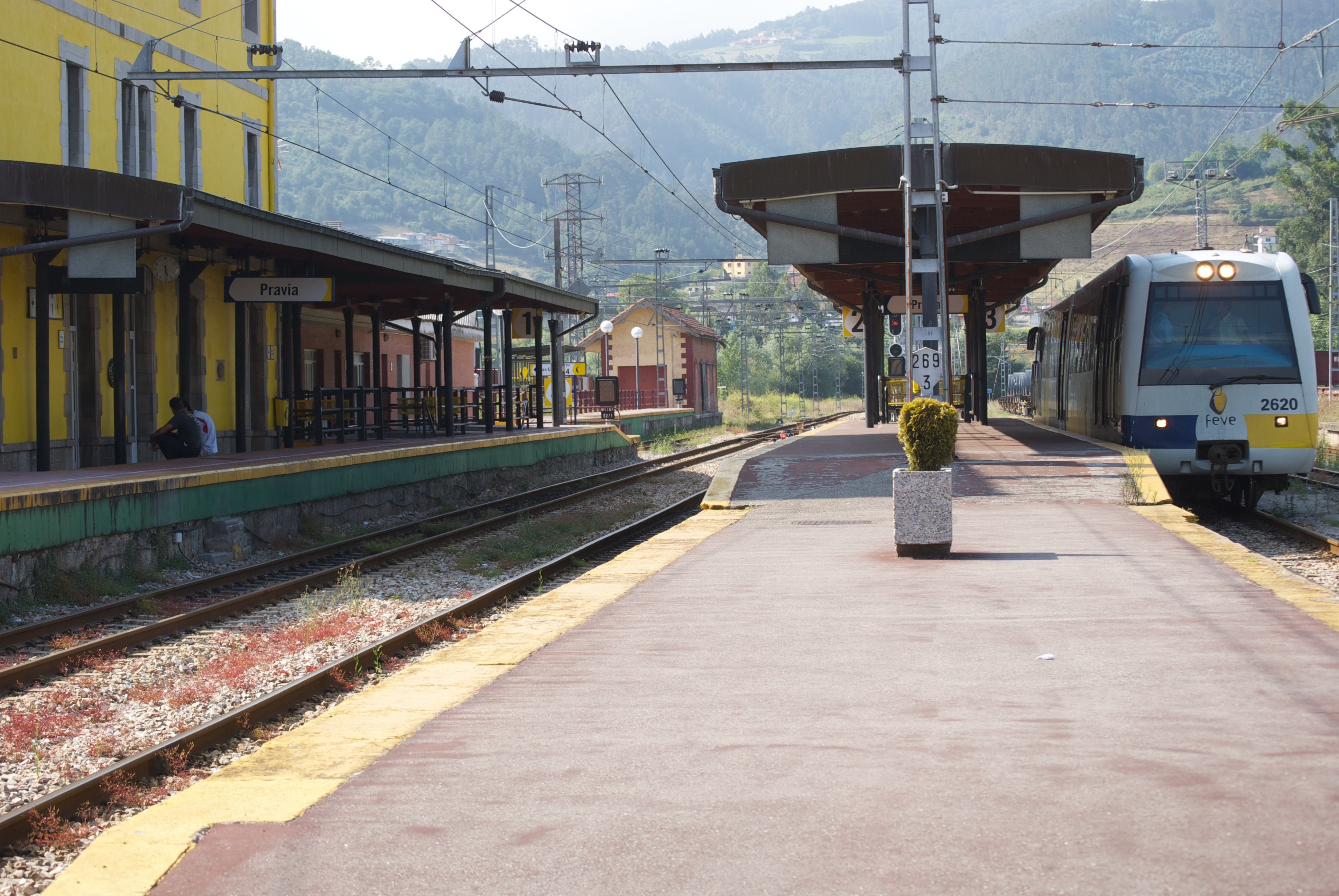 Platforms of the FEVE railway station in Pravia, Spain